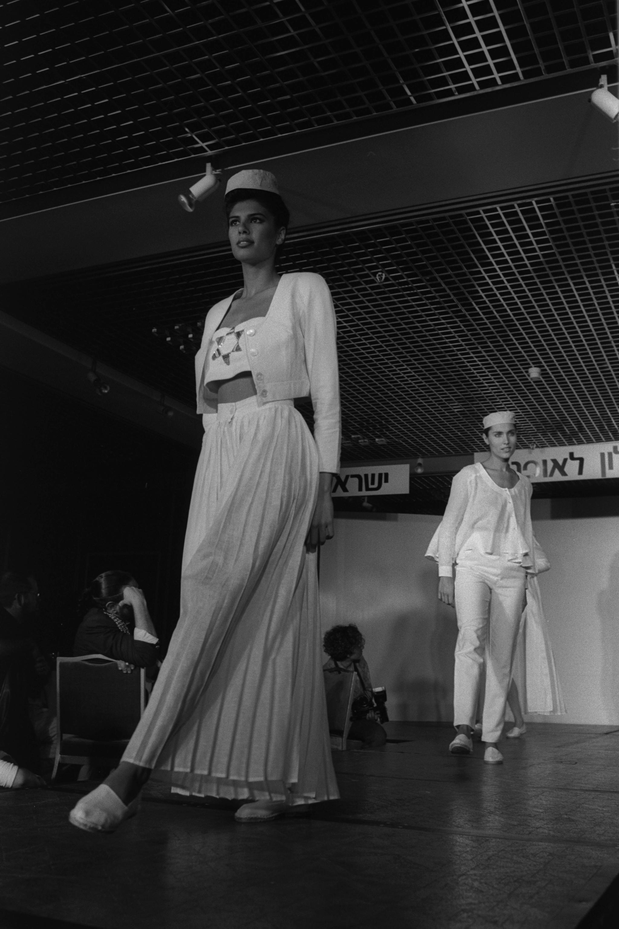 Models presenting dresses in the style of clothing worn by Jews in ancient times, designed by students of the fashion school at Shenkar College, at a fashion show in Tel Aviv. דוגמניות מציגות שמלות בהשראת בגדים יהודים עתיקים, אשר עוצבו על ידי סטודנטים של בית הספר לאופנה - שנקר. Photo: Yaakov Saar (1951–) Alternative names SA'AR YA'ACOV; Jacob Saar; Saʻar, YaʻaḳovDescriptionIsraeli photographerDate of birth 1951 Authority control : Q28751896 VIAF: 298161188 NLI: 001394176 creator QS:P170,Q28751896 , 05/05/1988